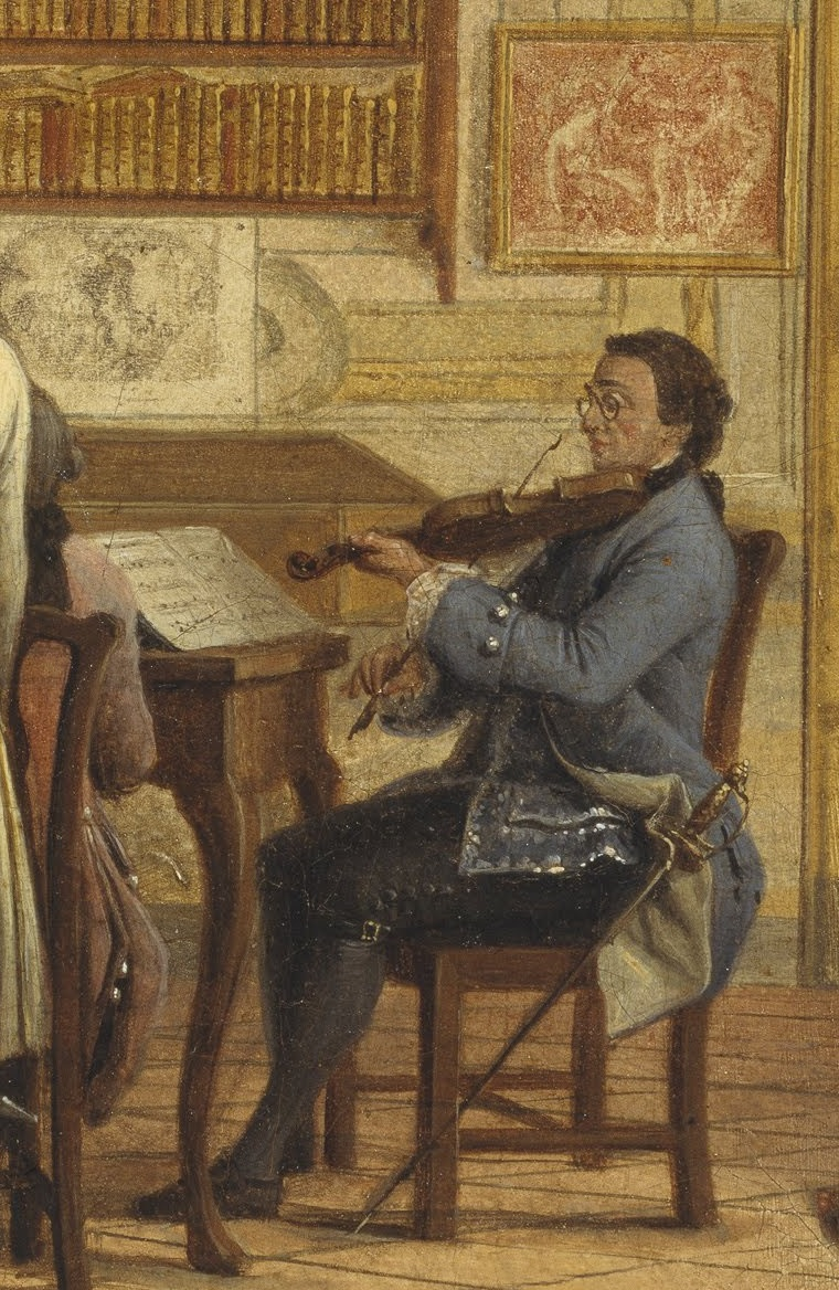 Kenneth Mackenzie, 1st Earl of Seaforth, 1744 - 1781, at home in Naples: concert party (Emanuele Barbella); attributed by Ian Jenkins, Kim Sloan (1996) and Giovanni Tribuzio (2016)